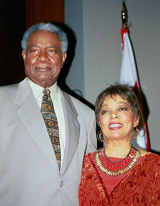 October 9, 2000 Ossie Davis and Ruby Dee African American legendary Acting dou.